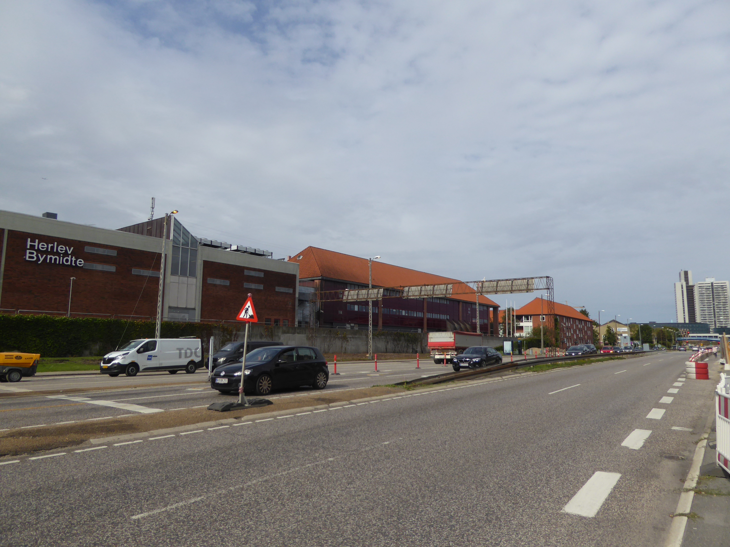 The road Herlev Ringvej at Herlev Bymidte in Copenhagen. When Hovedstadens Letbane opens in 2025 it will have at station in the middle of the street.